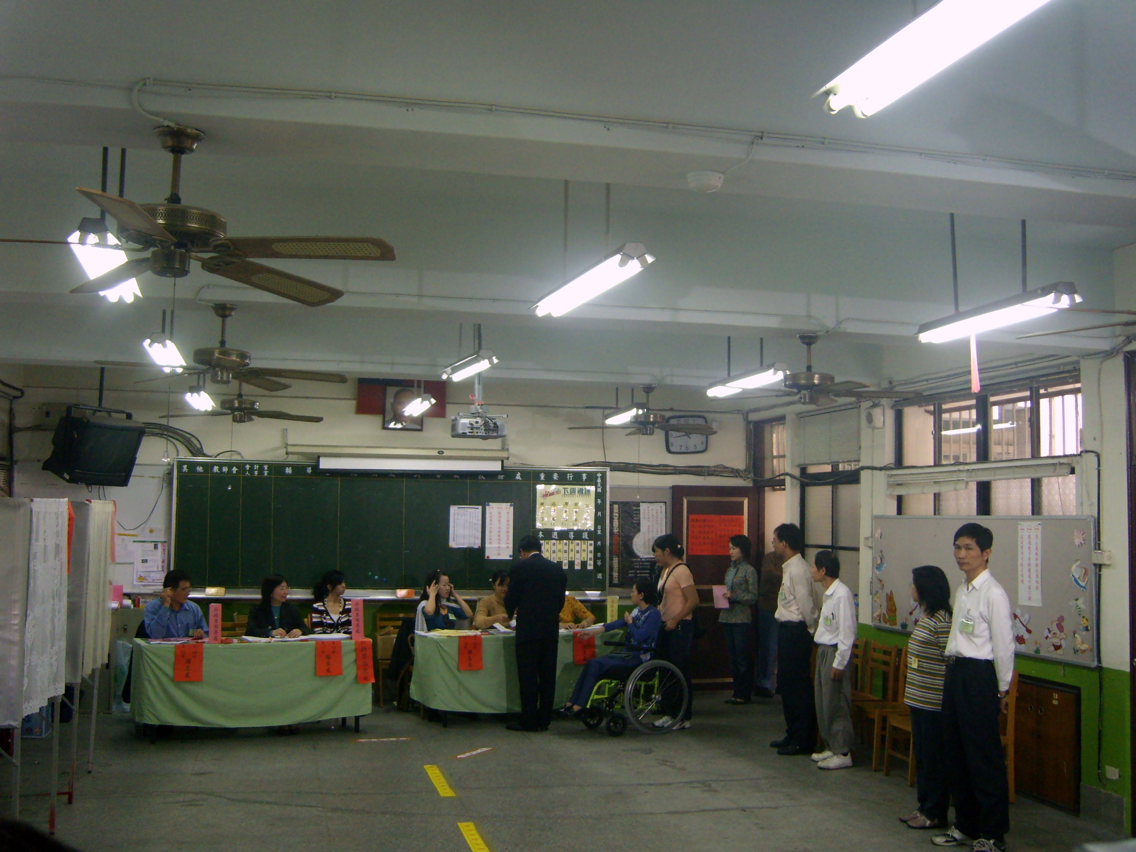 2008 Taiwan Legislative Election: The First Family in Voting.